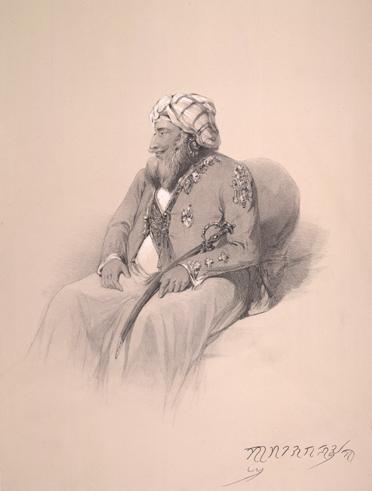 Artist: Hardinge, Charles Stewart (1822 - 1894) Medium: Lithograph Date: 1847 Plate 1 from "Recollections of India. Part 2. Kashmir and the Alpine Punjab" by James Duffield Harding (1797-1863) after Charles Stewart Hardinge (1822-1894), the eldest son of the first Viscount Hardinge, the Governor General. This depicts Maharaja Gulab Singh (died 1857) who started his career as a soldier under Maharaja Ranjit Singh (1792-1839) and rose to a prominent position at his court. During the first Sikh war he forged an alliance with the British and defeated Sikh groups vying for power after Ranjit Singh's death. After signing the Treaty of Amritsar, 1846 he became Maharaja and bought the territories of Jammu and Kashmir which occupied an important position in the political geography of India. The British needed a friendly power by which the Northwest frontier could be defended against the Afghans.